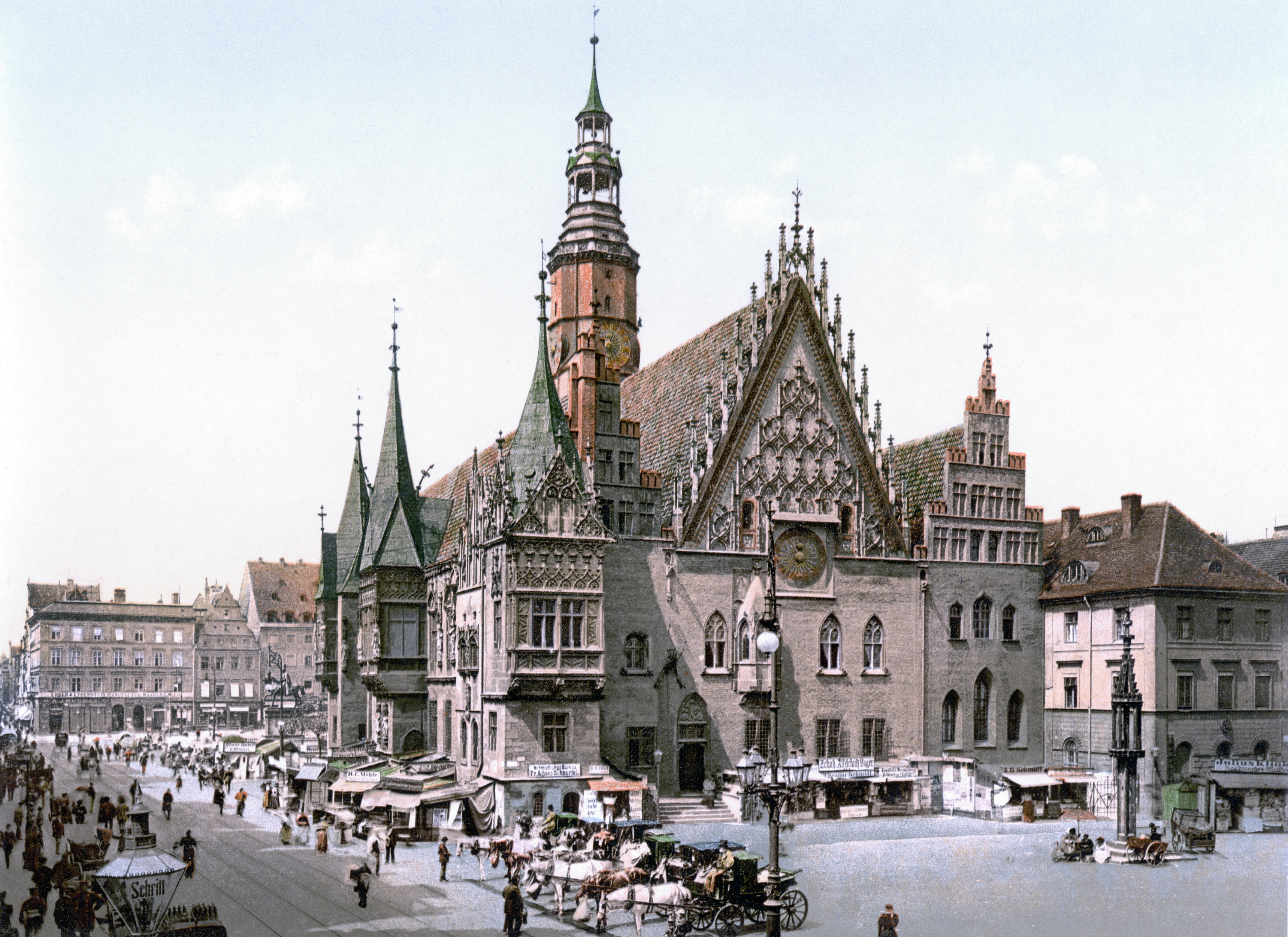 City hall of Breslau, Germany (now: Wrocław, Poland) between ca. 1890 and ca. 1900. View from the east.